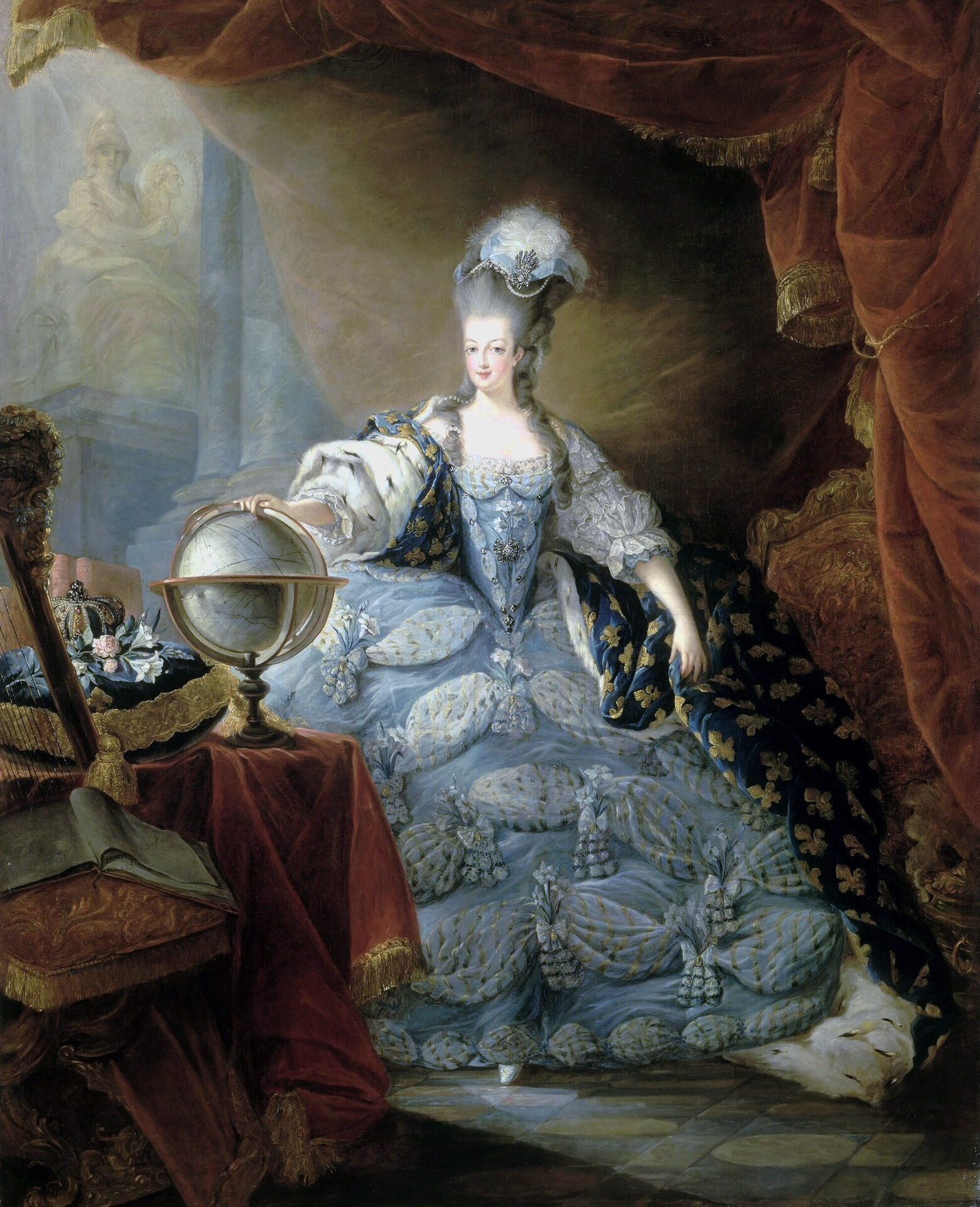 Portrait of Marie-Antoinette of Austria